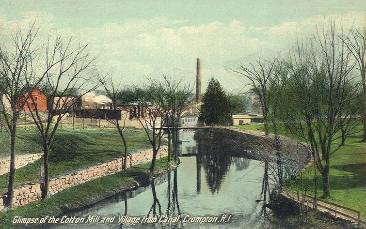 Glimpse of the Cotton Mill and Village from Canal, Crompton, RI; from a 1917 postcard.